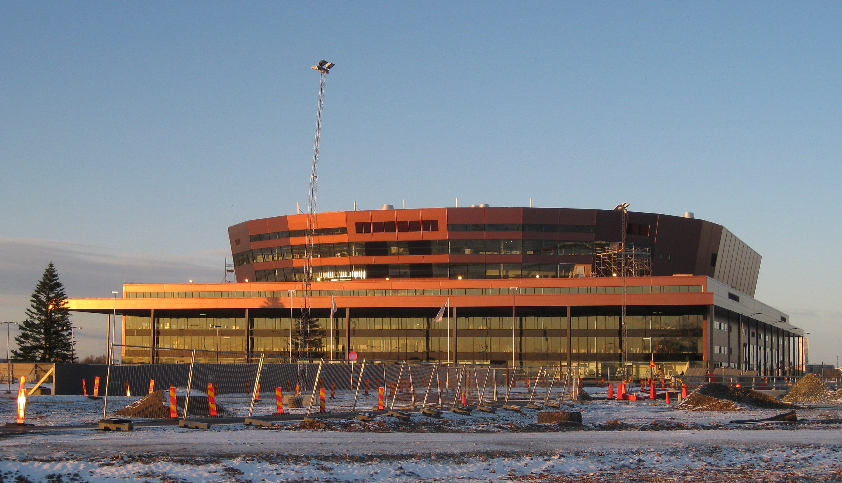 Malmö Arena, in Malmö, Sweden. Some work remains, even though the arena has been opened.